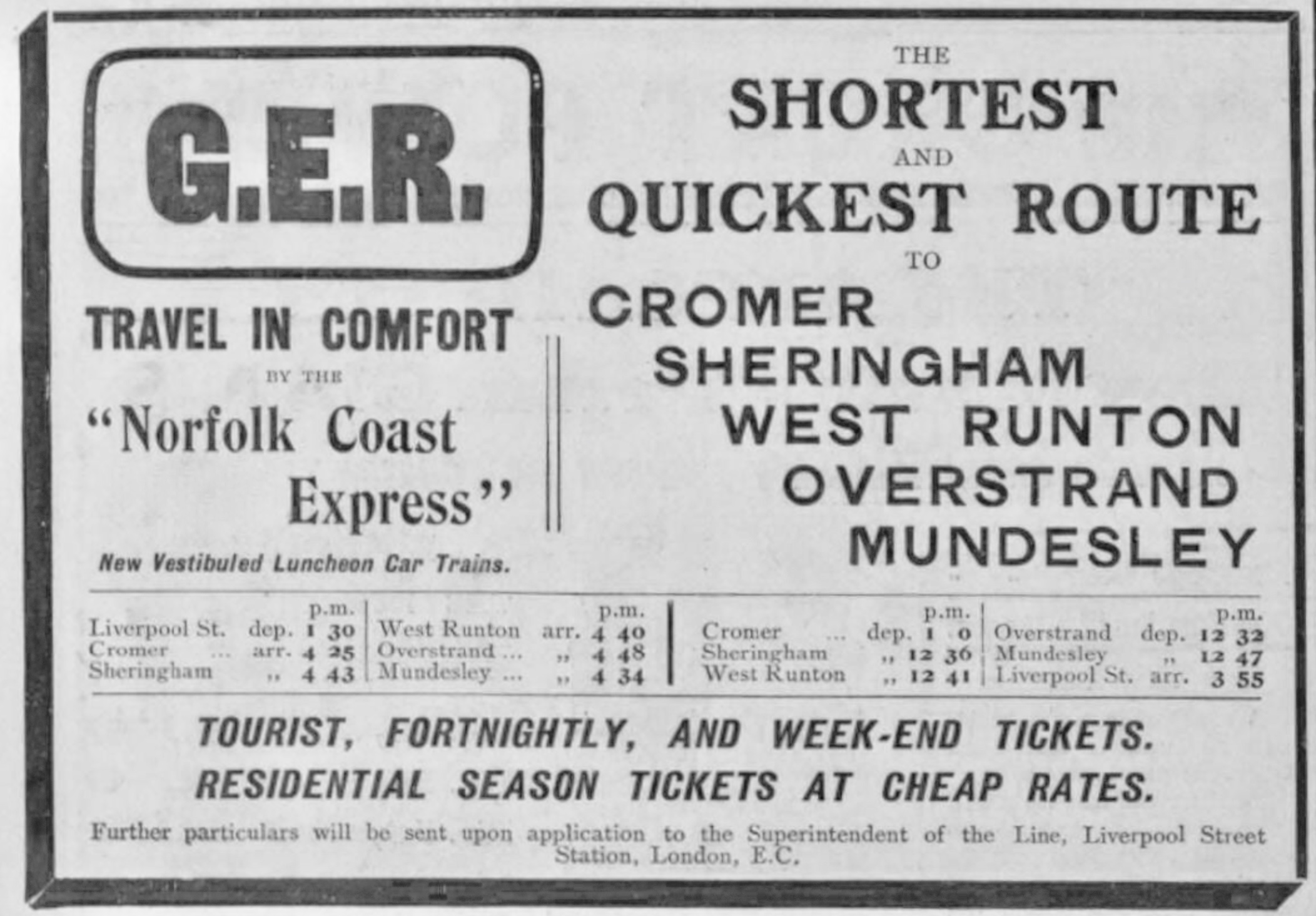 Advertised in the Illustrated London News, 17 August 1907